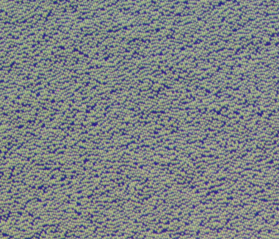 This is a photomicrograph of the pits at the inner edge of a CD-ROM taken with an Omax A3590U camera through an Omax A3RDF50 0.50x fixed adapter, Ernst Leitz Wetzlar 1.25x microscope body tube, and 3.5x Leitz Wetzlar objective lens; 2 second exposure under visible fluorescent light.